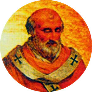 Portait of Pope Alexander III in the Basilica of Saint Paul Outside the Walls, Rome